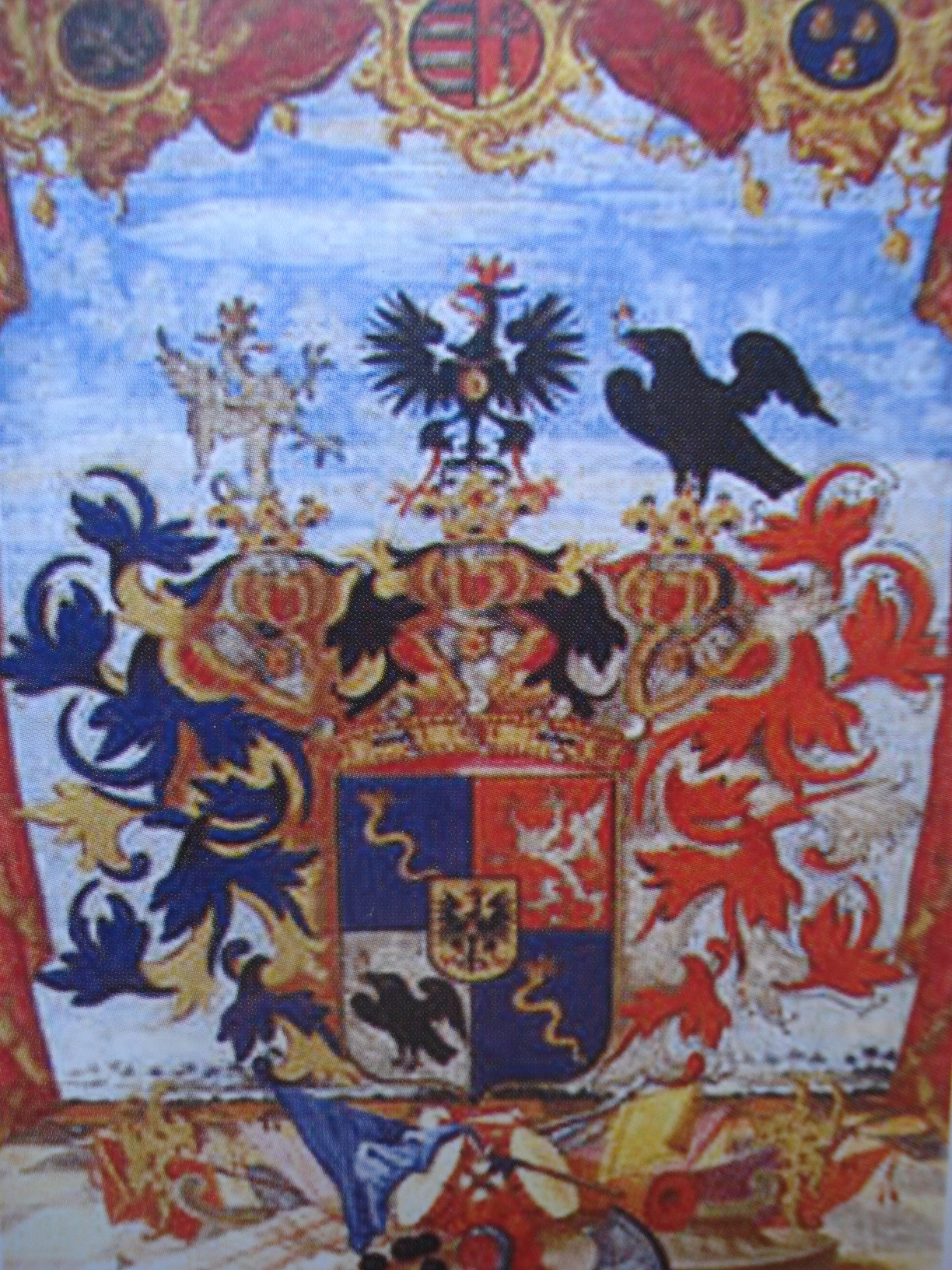 Coat of arms of the Knežević (Knezhevich of Sveta Jelena) noble family (Croatia)